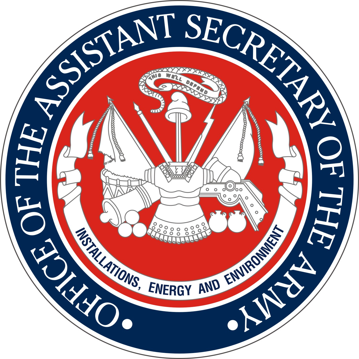 Seal of the Office of the Assistant Secretary of the Army (Installations, Energy and Environment)